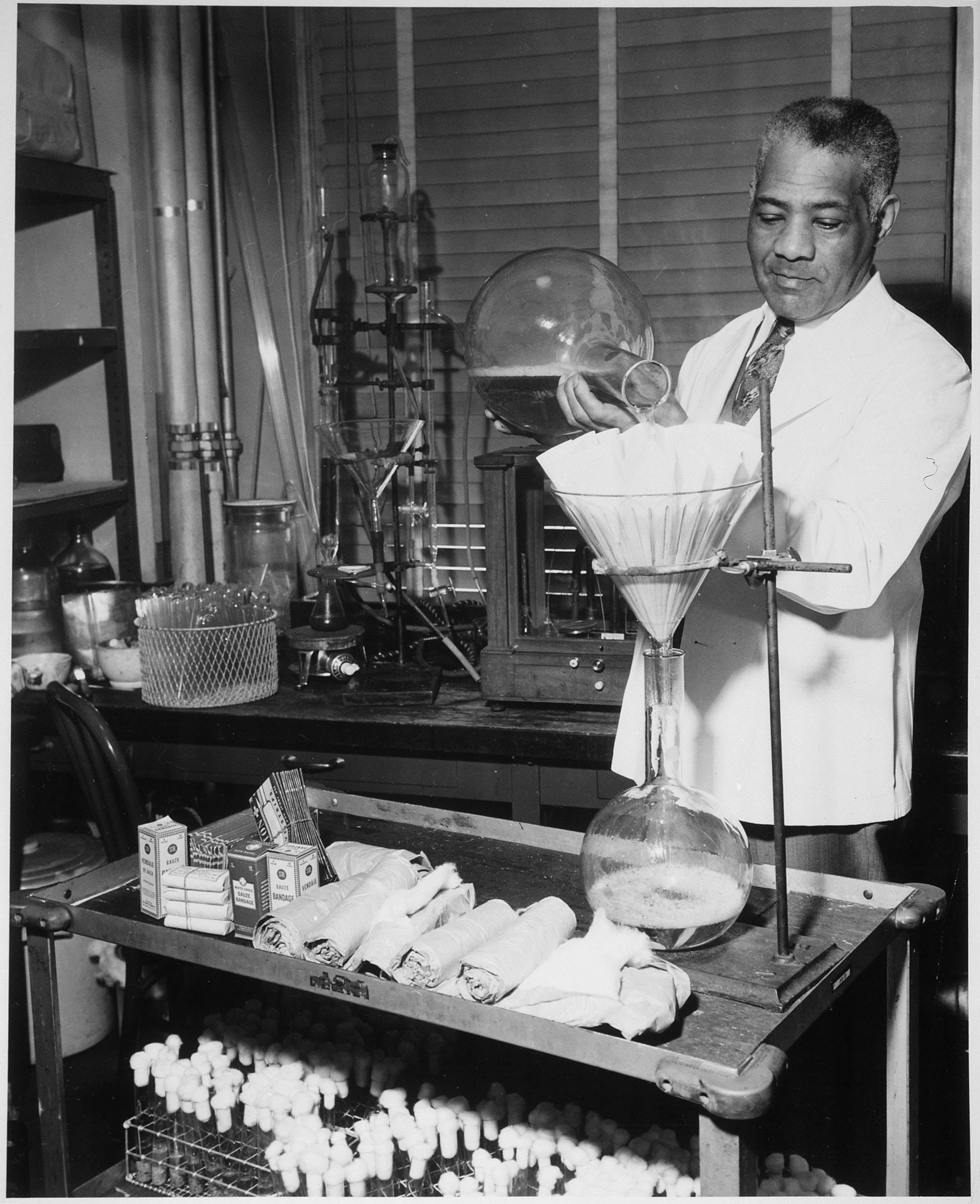 William R. Carter, a pharmacist for the United States government for 40 years, pictured working in an Food and Drug Administration (FDA) laboratory in 1941.